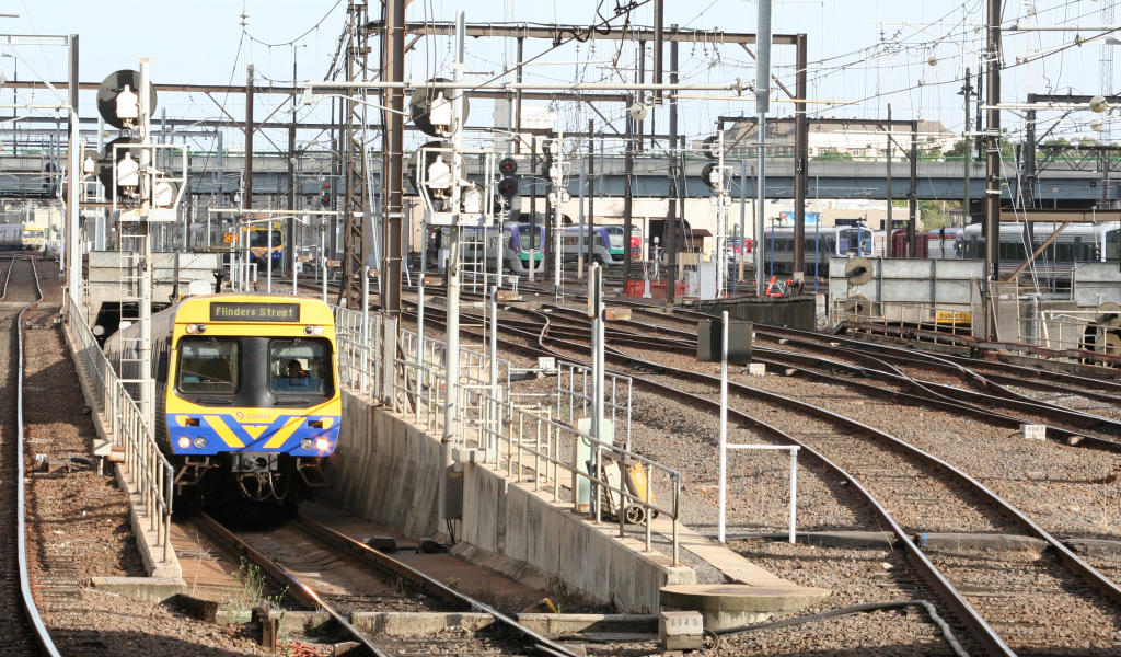 Caufield group City Loop portal - Melbourne, Australia